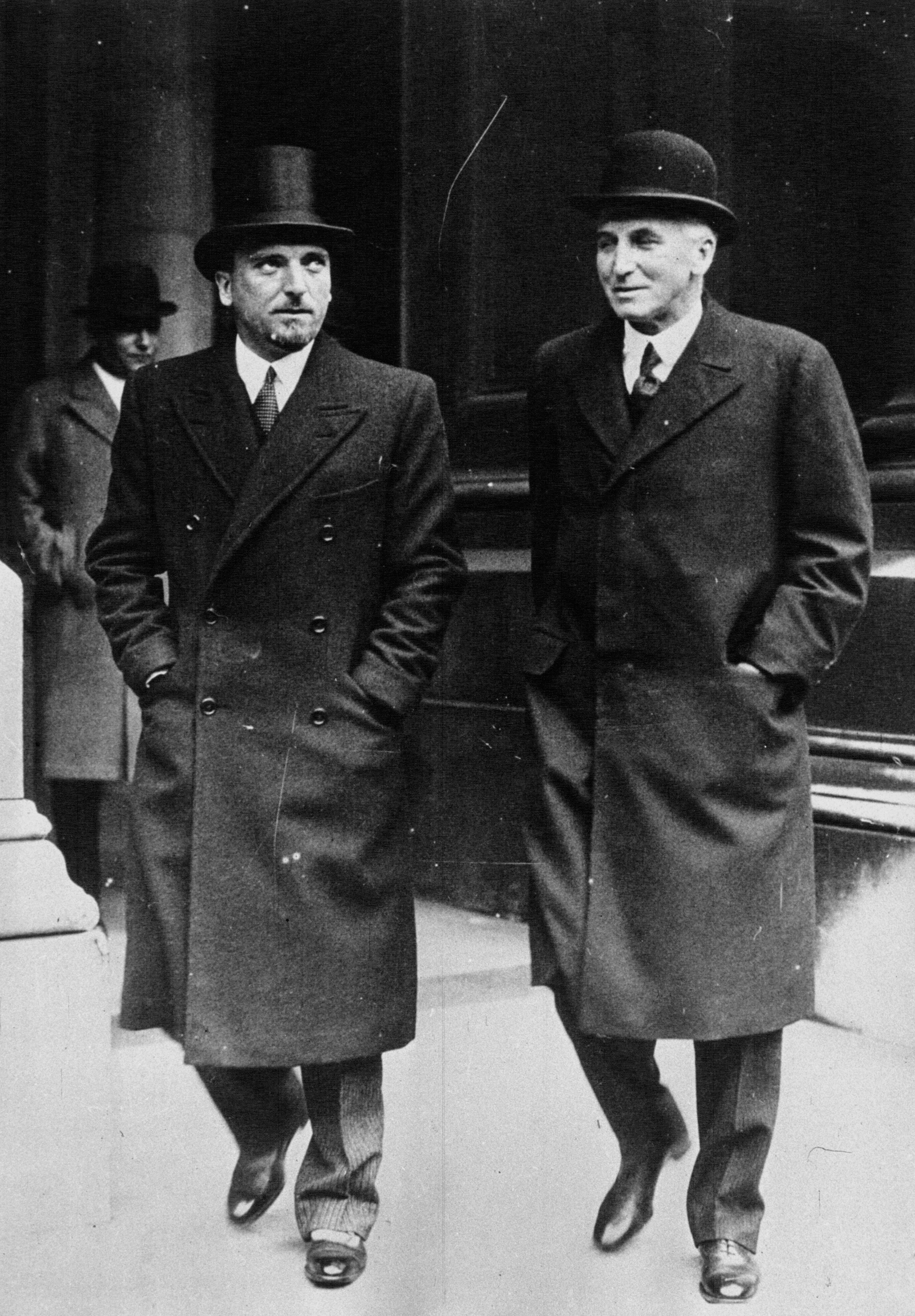 Italian Foreign Minister Dino Grandi (1895-1988) and British Foreign Secretary John Simon, 1st Viscount Simon (1873-1954).